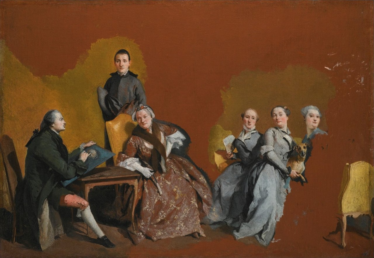 The Tiepolo Family by Giovanni Domenico Tiepolo, oil on canvas 67 by 96 cm.